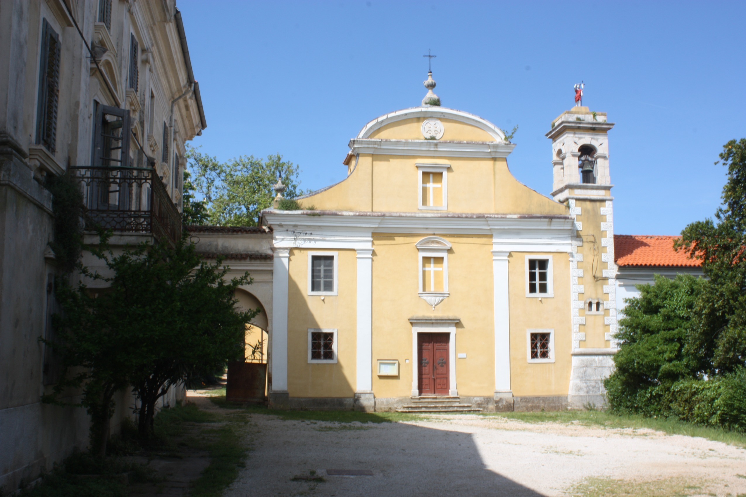 Dajla (Novigrad}, the former monastery, church